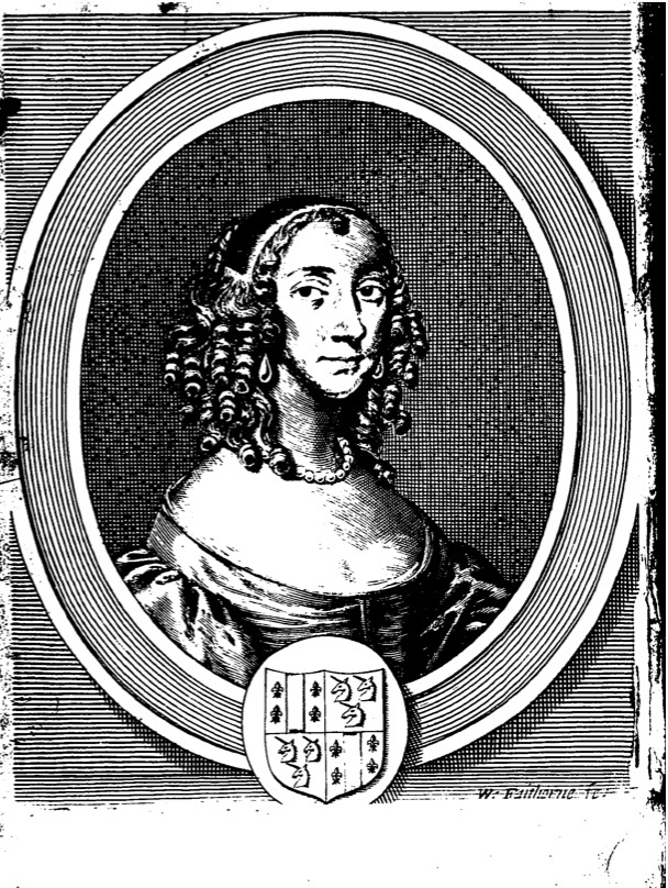 Hannah Woolley (1622, - circa 1675) English author of books on household management. Shown from the frontispiece of The Gentlewoman's Companion; or, a Guide to the Female Sex published 1673.